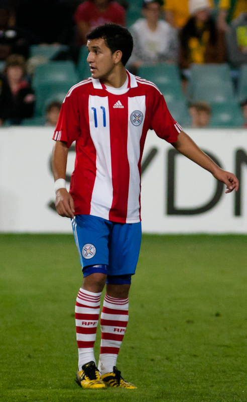 Nestor Camacho playing for the Paraguay national football team in a friendly match against Australia at the Sydney Football Stadium.